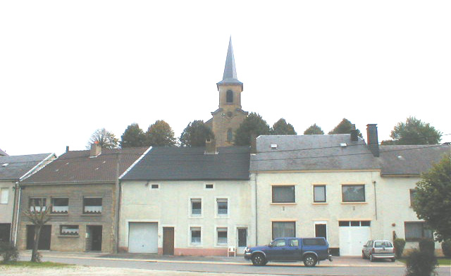 Village of Meix-devant-Virton, Belgium. Walon: Méch-divant-Vierton : li longue rowe et l' eglijhe so on croupet.